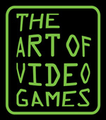 Logo, "The Art of Video Games," Smithsonian American Art Museum